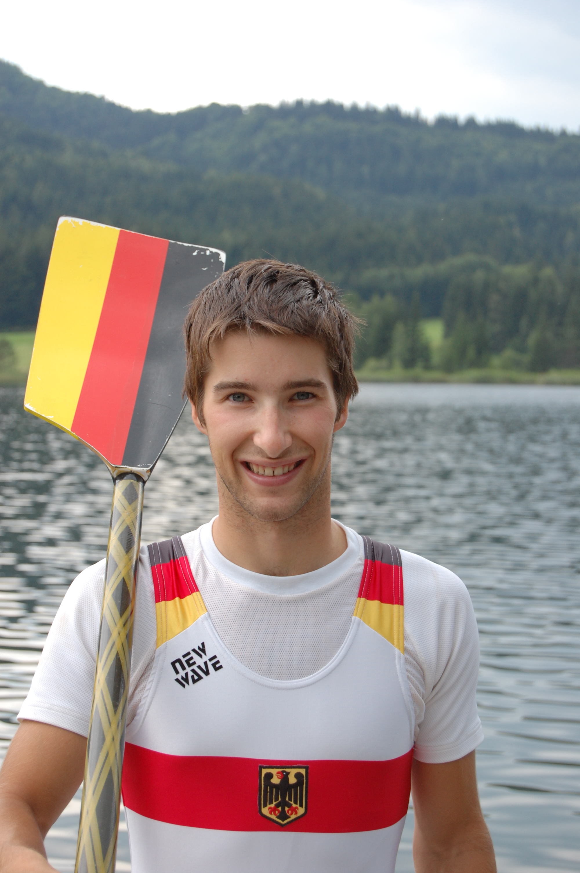 German Lightweightrower Jonathan Koch